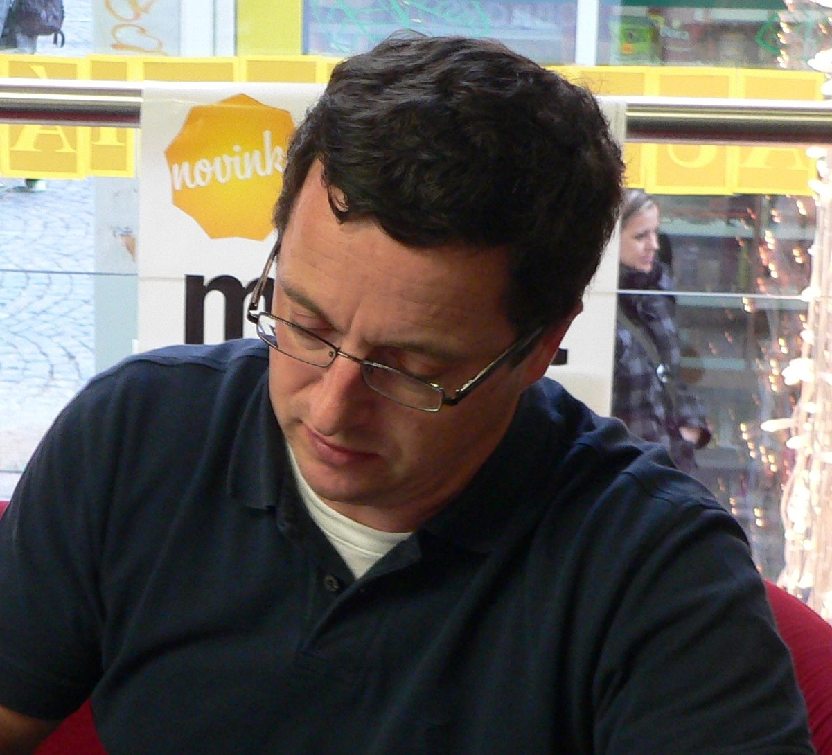 Michal Viewegh, Czech writer and publicist.